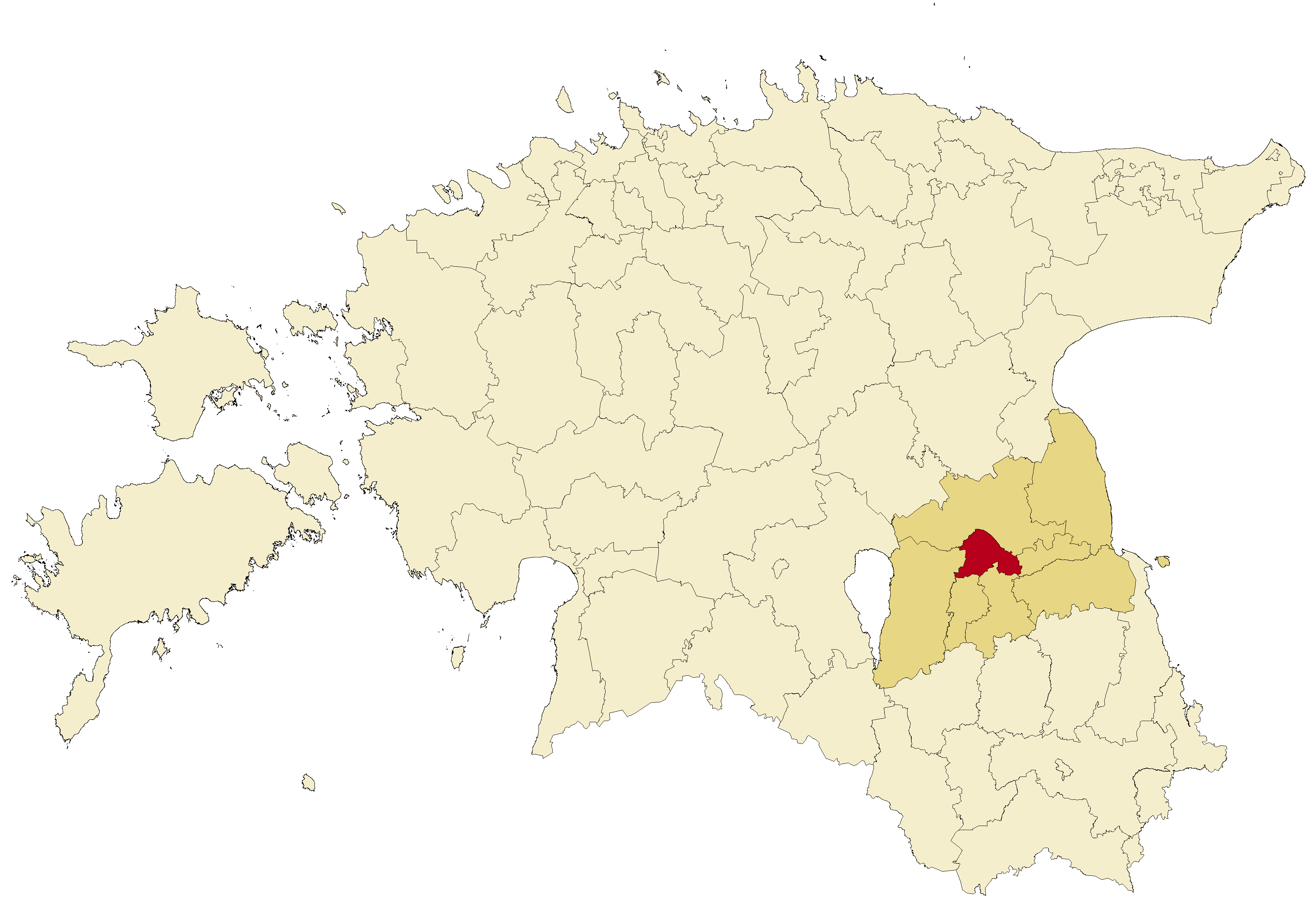 Location of the city of Tartu (red) within Tartu County (dark yellow) after the Administrative Reform of Estonia in 2017.